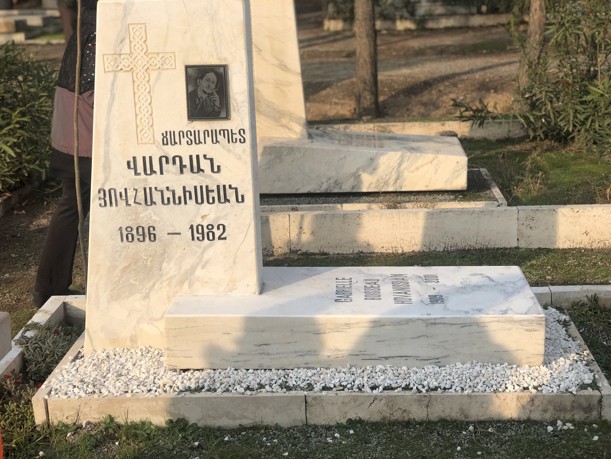 Vartan Hovanessian (1896 – 1982) Iranian Armenian architect and leading figure in architectural practice and philosophy's gravestone at Burastan Cemetery